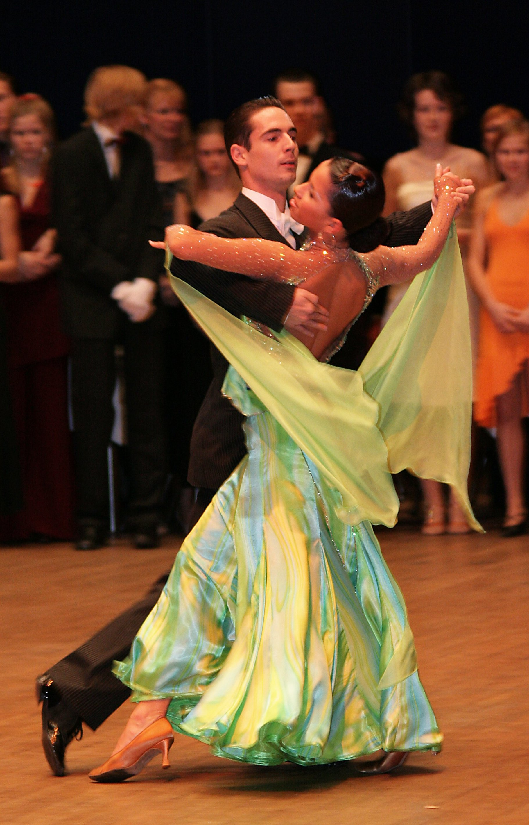 Classical dance exhibition on a ball in the Prague Congress Center. A ballroom tango.